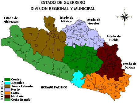 Guerrero Mexico